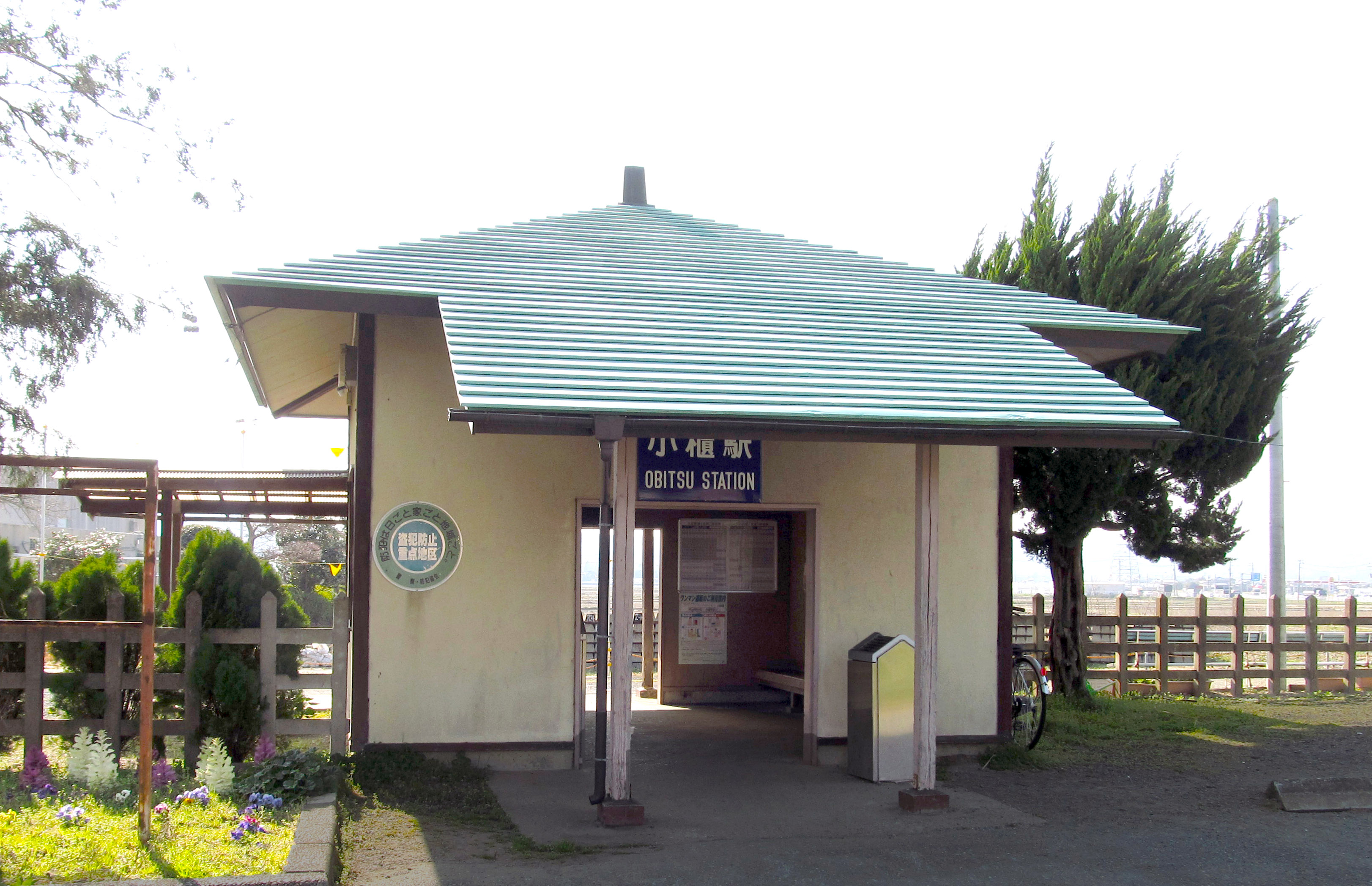 The entrance to Obitsu Station on the Kururi Line in Kimitsu city, Chiba prefecture, Japan